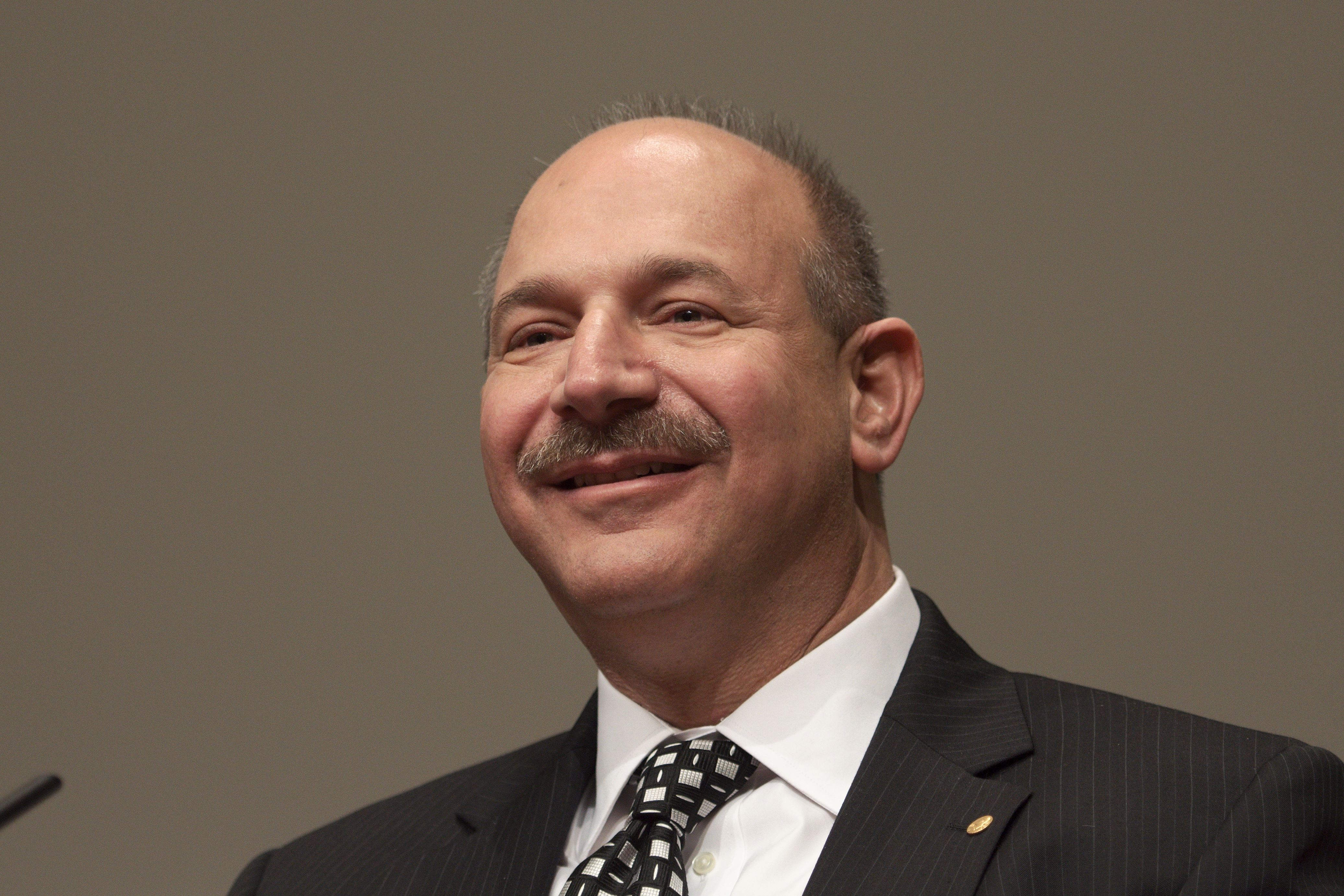 Nobel Prize 2011, press conference with the laureates of the Nobel prize in Physiology or Medicine: Bruce Beutler.